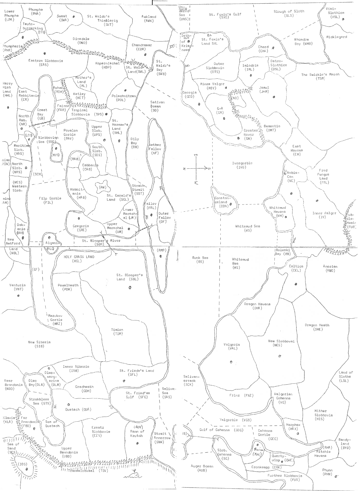 A composite map of Slobbovia from issue #69 with the "proper" south-north orientation.